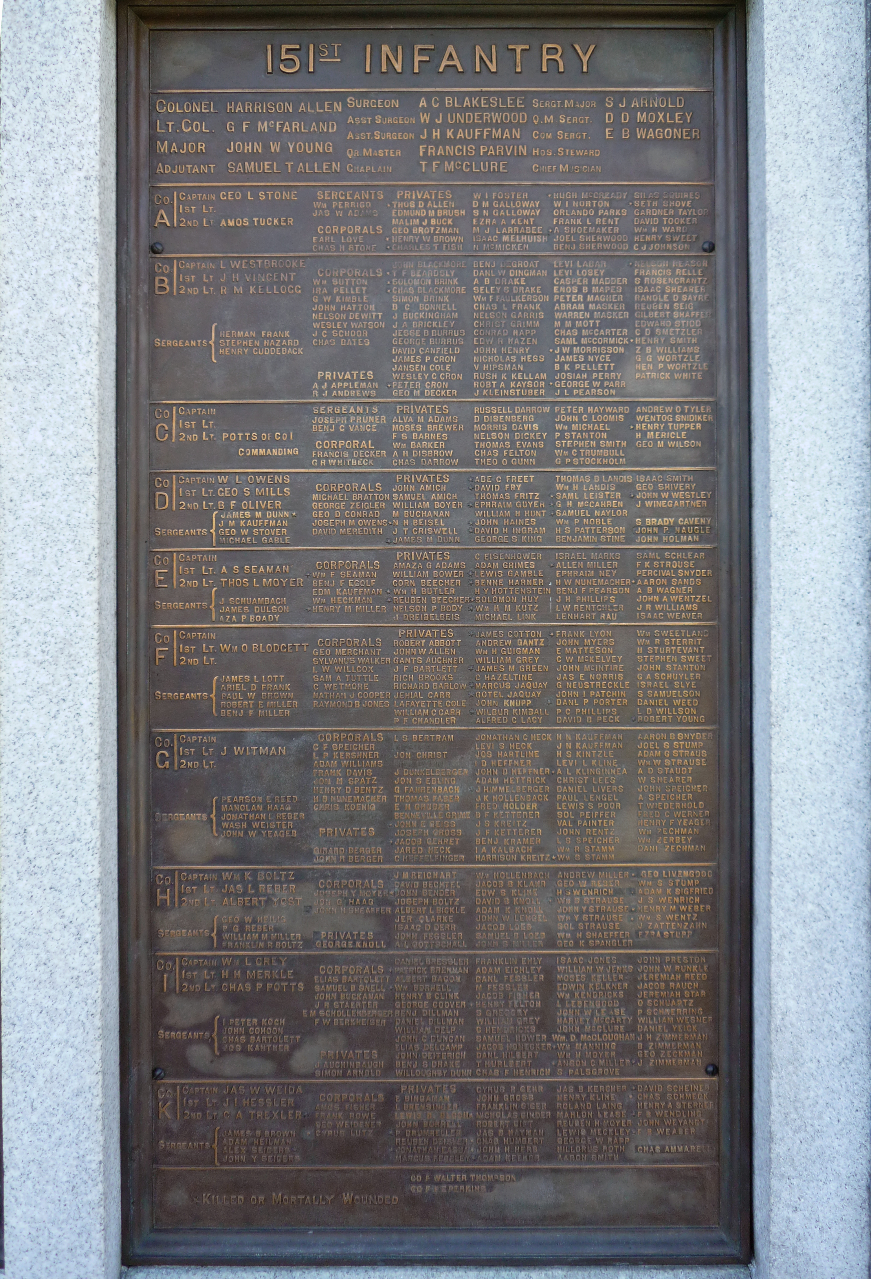 151st Pennsylvania Infantry tablet on the Pennsylvania State Monument at Gettysburg, Pennsylvania